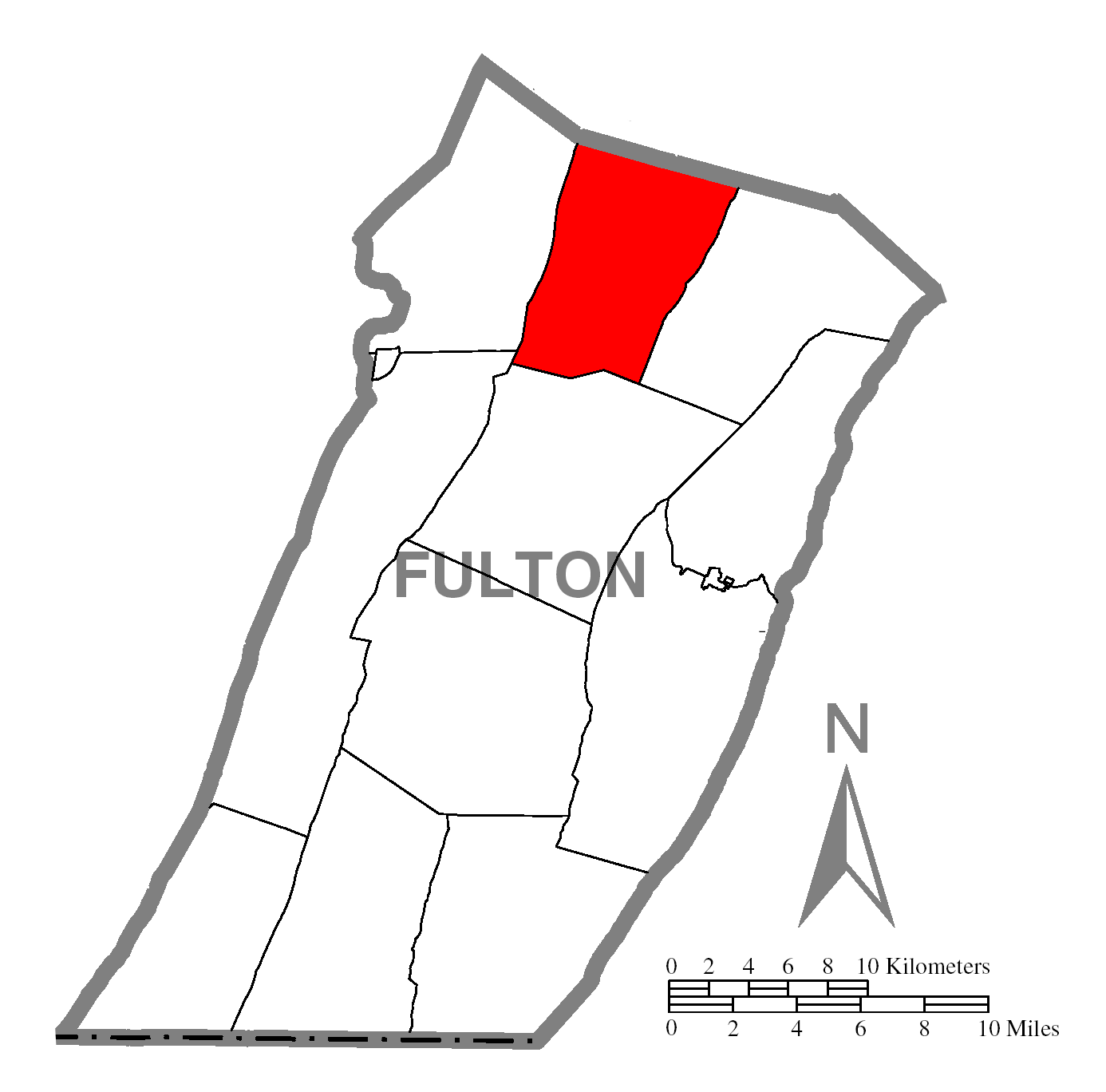 A map of Fulton County showing Taylor Township, Pennsylvania (alternate) highlighted on the map.